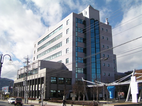 City office of Chino, Nagano, Japan